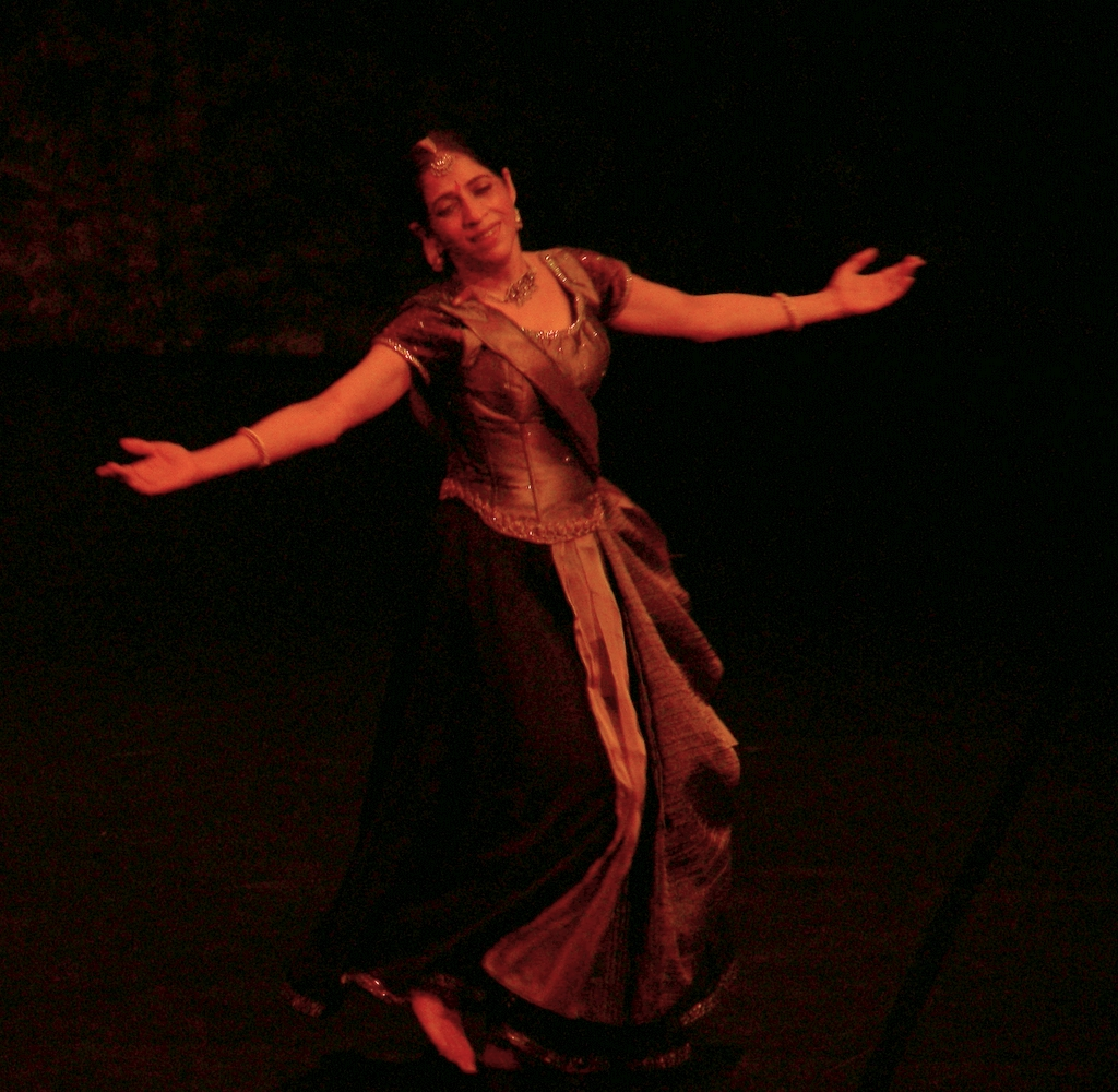 Aditi Mangaldas, show in Warsaw